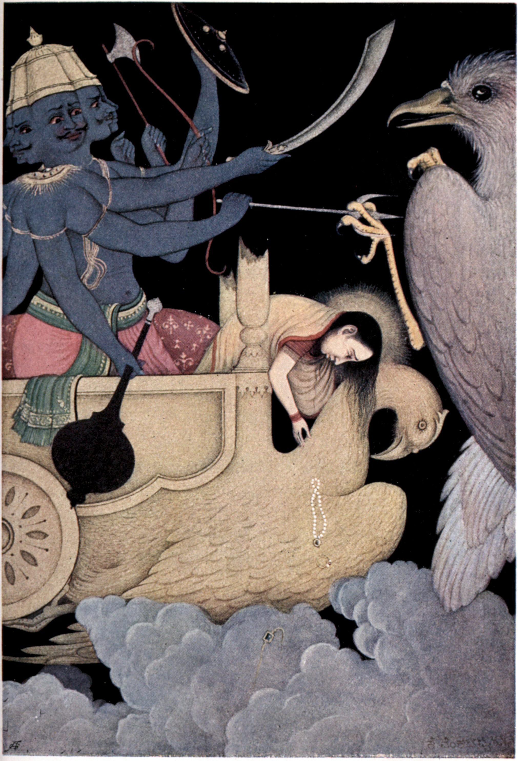 Myths of the Hindus & Buddhists (1914) p. 60: Ravana fighting with Jatayu" by K. Venkatappa